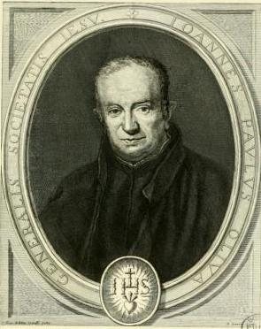 Giovanni Paolo Oliva, S.J.